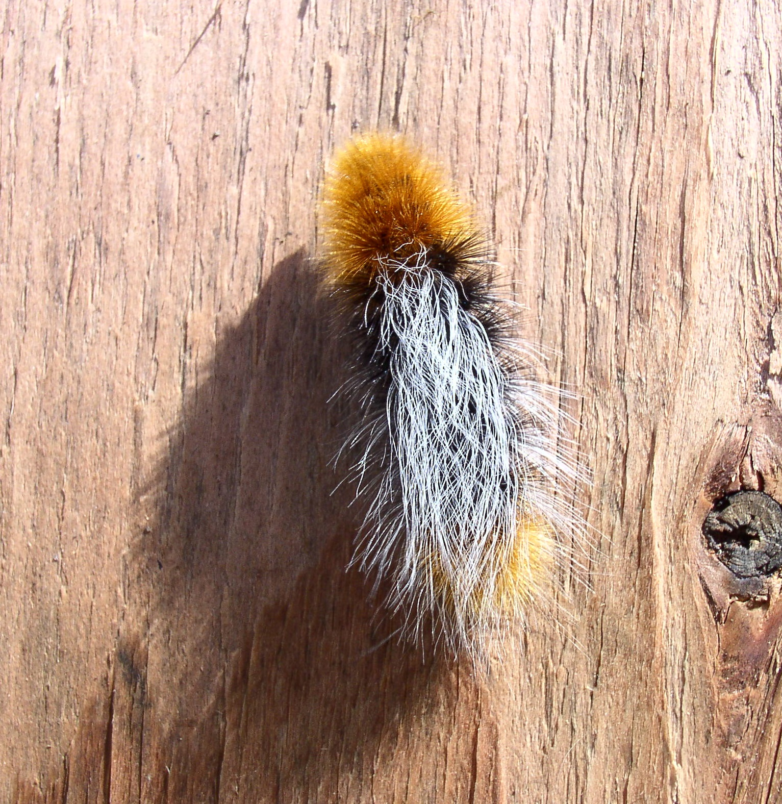 Caterpillar of Platyprepia virginalis (Ranchman's Tiger Moth - Hodges#8163). Fairview Industrial Park, Salem, Marion County, Oregon, USA.